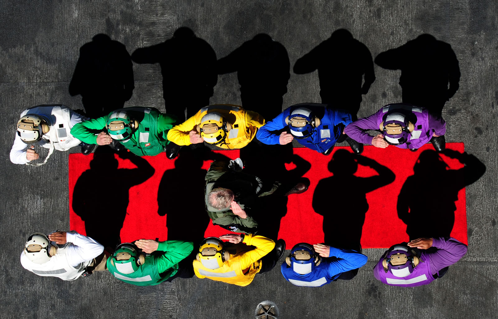 PACIFIC OCEAN (May 16, 2011) Side boys render a salute to Secretary of the Navy (SECNAV) the Honorable Ray Mabus aboard the Nimitz-class aircraft carrier USS John C. Stennis (CVN 74). The John C. Stennis Carrier Strike Group is participating in a composite training unit exercise off the coast of Southern California. (U.S. Navy photo by Mass Communication Specialist 3rd Class Crishanda K. McCall/Released)